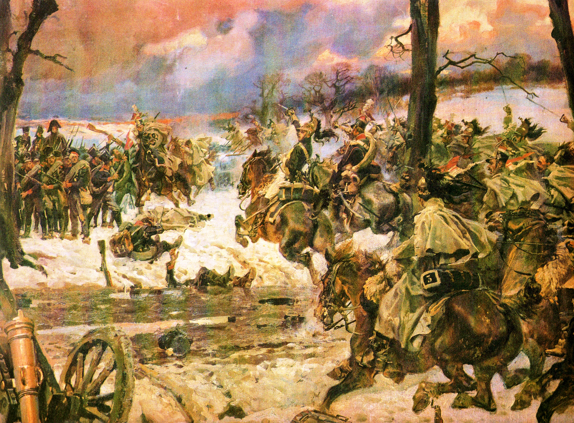 Battle of Montmirail 1814